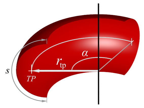 Illustration to Guldins rule